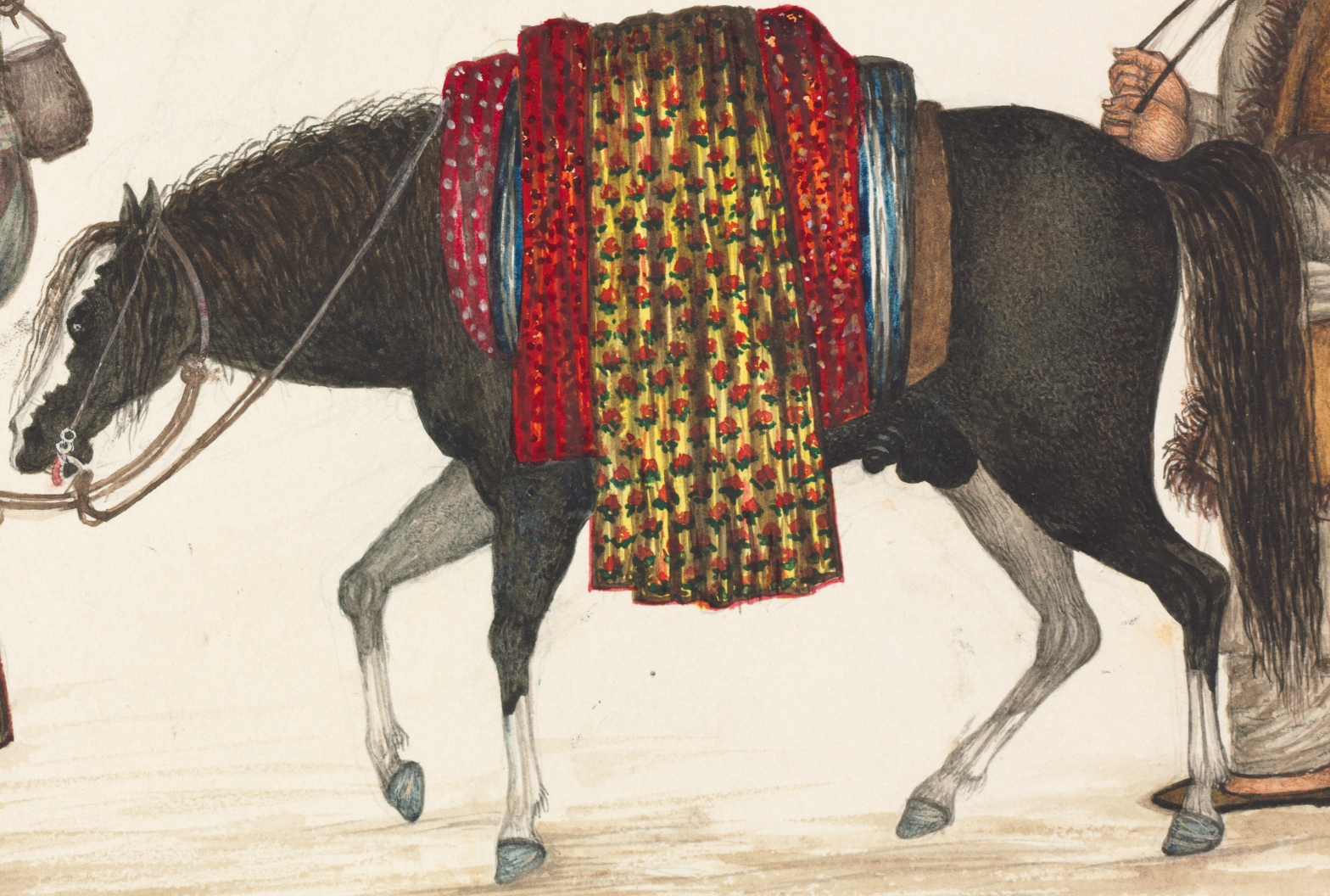 This painting depicts men of Turkic descent migrating into India from western Asia. No longer with the ambition to conquer, like the Turko-Mongol rulers Timur (d. 1405) and Babur (c. 1530), the first Mughal emperor, these migrants are seeking new lands in which to settle as immigrants. The highly detailed subjects are placed against a plain background, as if the figures were designed for objective study and categorization. Indian artists made works such as this for the British in India, who were interested in collecting accurate visual records of flora, fauna, and ethnic groups who inhabited the land they colonized in 1858.